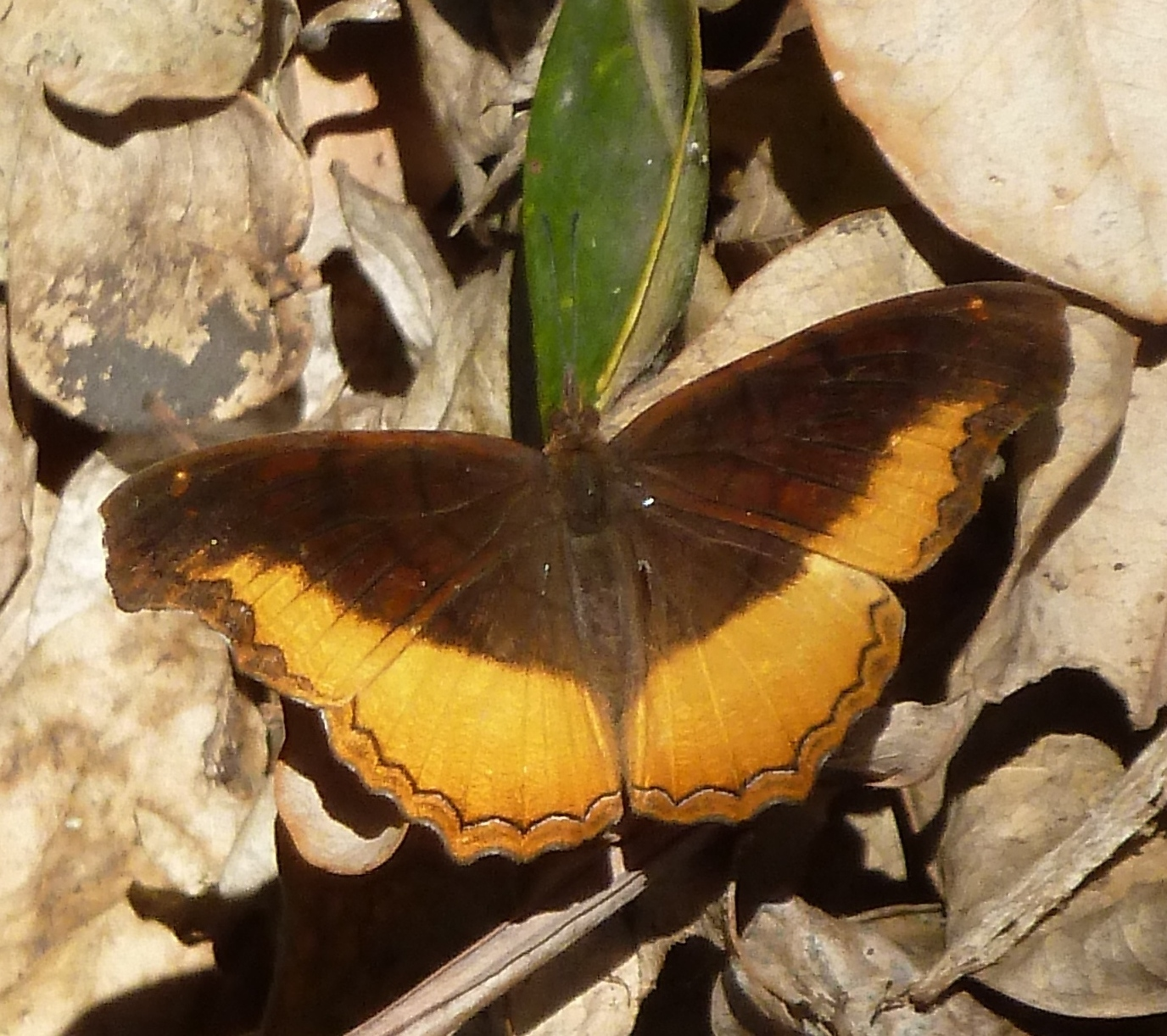 Golden piper at The Waterberry in Ballito, KZN